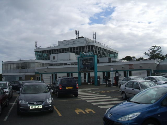 Hilton Park Services on M6 Northbound near to Springhill, Staffordshire - A 1960s built services on the M6 north of Walsall. The next services south on the M6 and M5 are about 30 miles away. These services are usually very busy despite some traffic now using the M6 Toll. The low buildings are a later addition.For more information, see Wikipedia article Hilton Park services.